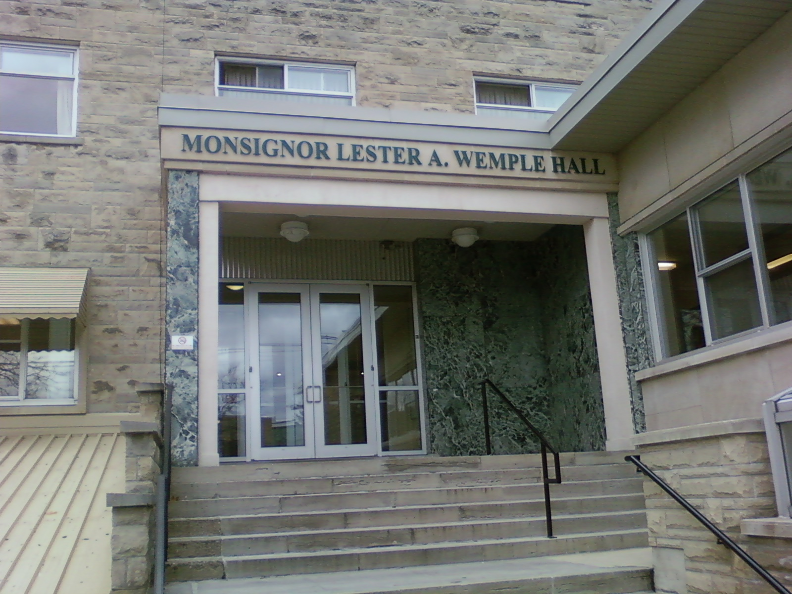 An Image of Wemple Building at King's University College UWO